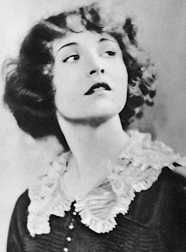 Betty Compson in the American romantic drama film The Rustle of Silk (1923), from a 1923 publication. Photo by Nickolas Muray.